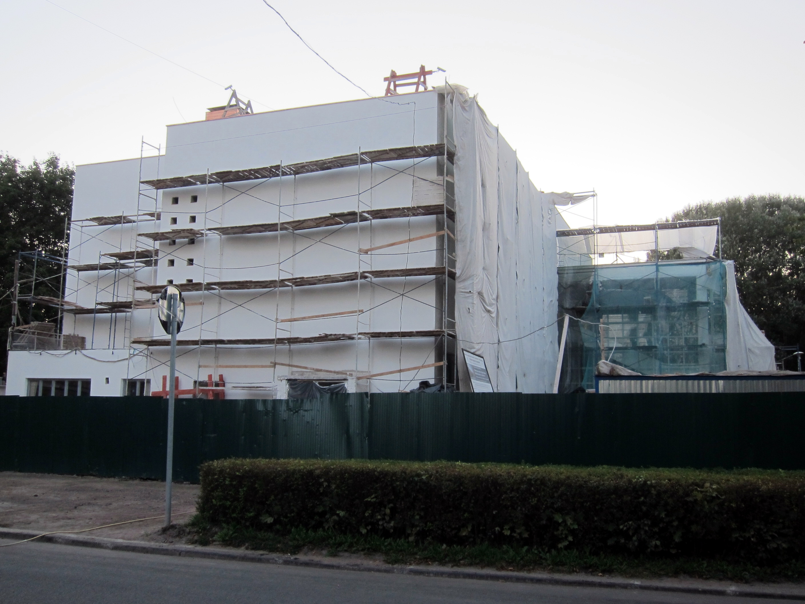 Vyborg, Russia, library exterior renovation photograph taken August 2013